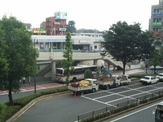 South Exit, Kita-Kogane Station, Matsudo, Chiba, Japan